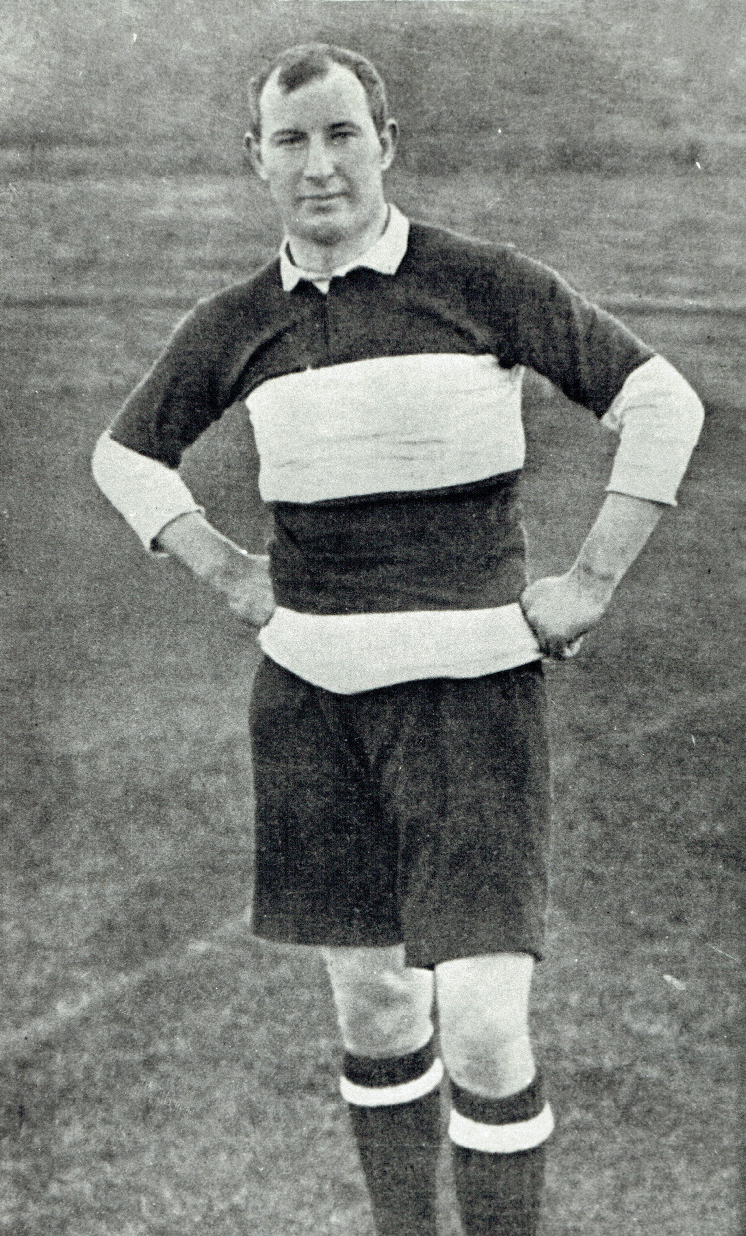 Pat McEvedy